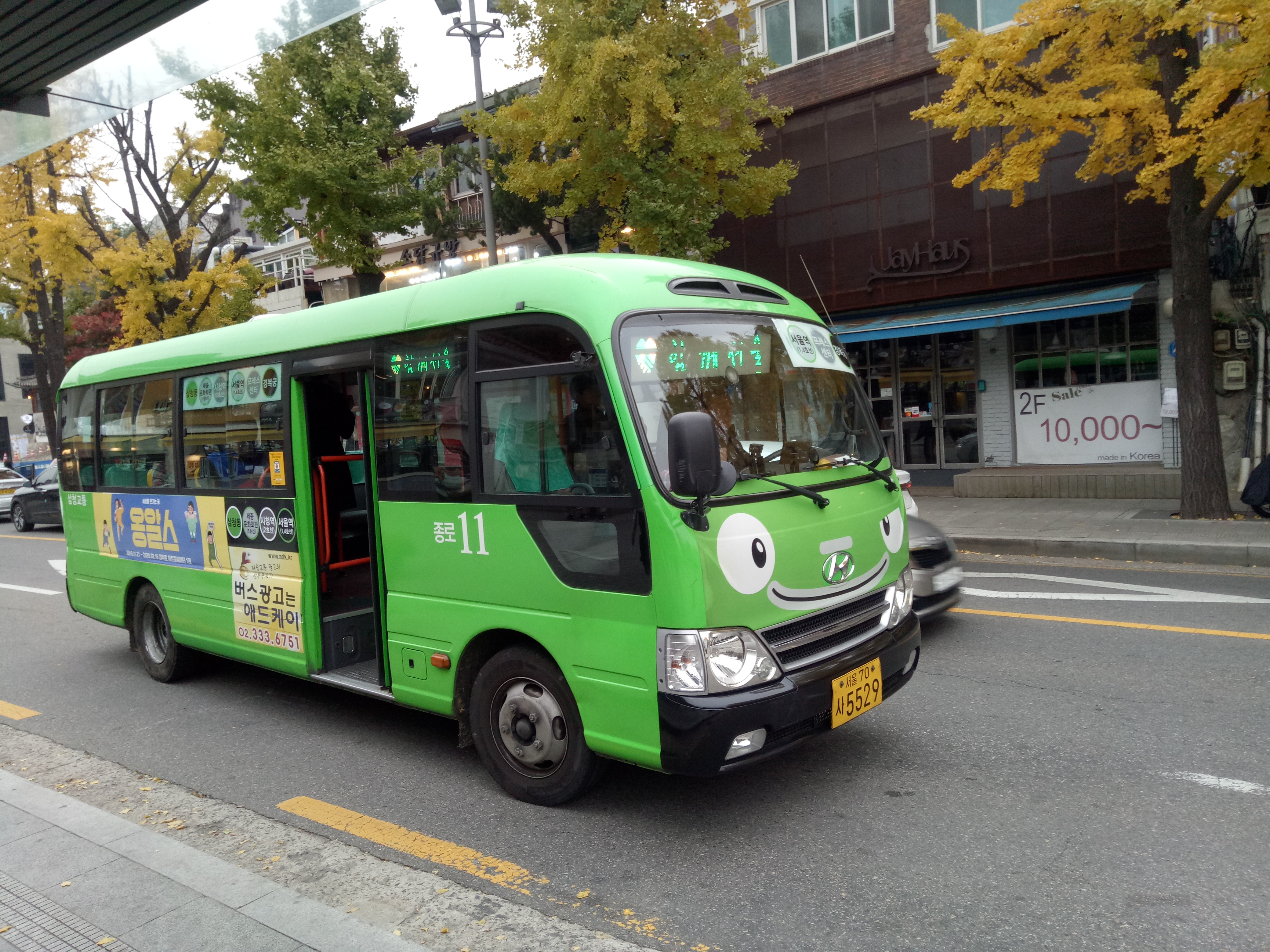 Jongno Public Light Bus 11. (Nov 2019)